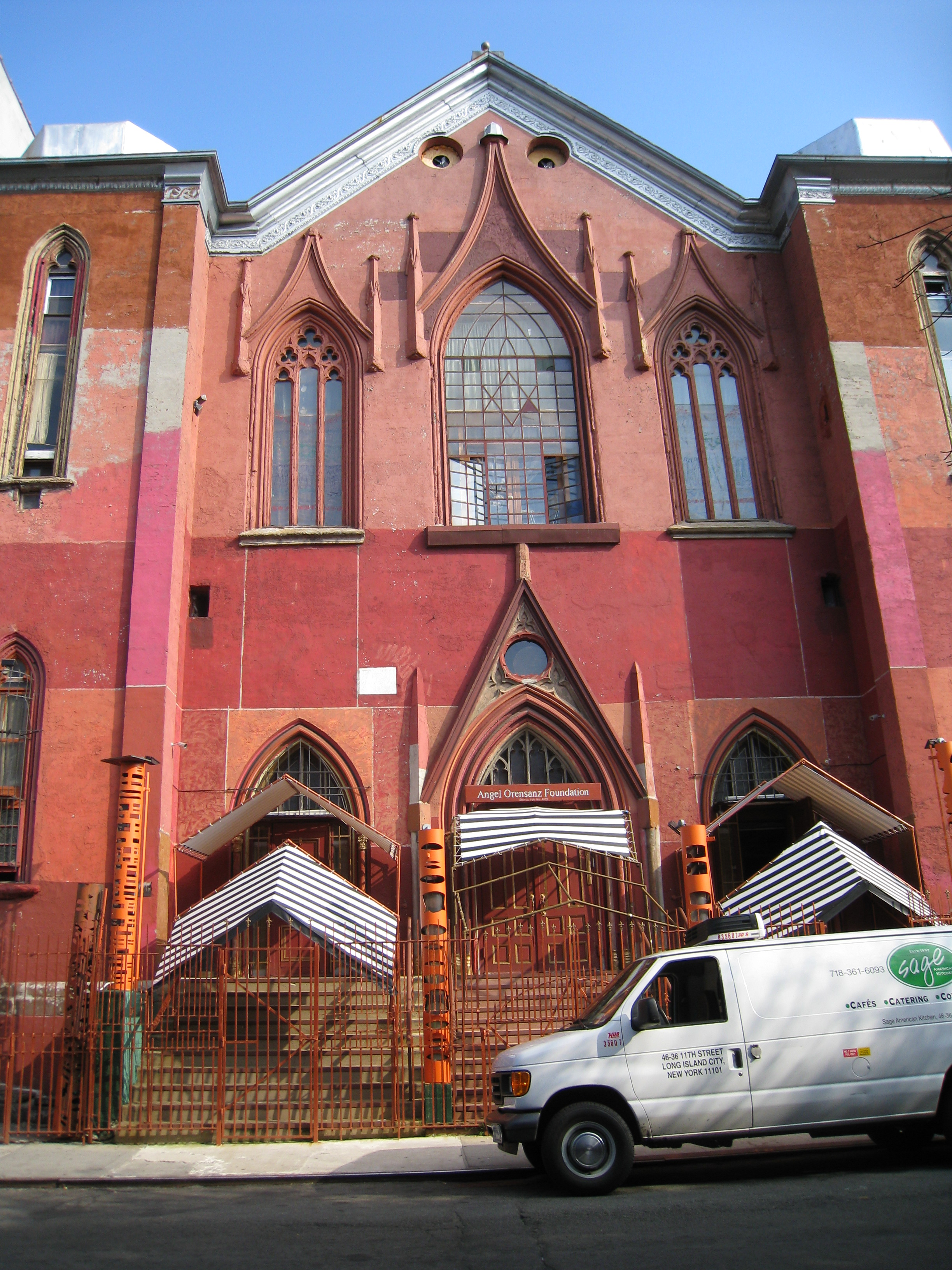 This photo is of Wikis Take Manhattan goal code F23, Angel Orensanz Center.